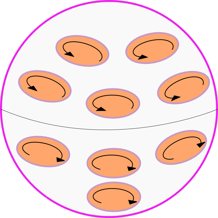 Liquid metal disks in Earth outer core that produce the Earth magnetic fields according to the dynamo theory